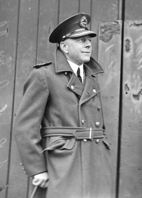 Squadron Leader Garnet Malley, New South Wales (cropped from larger image)